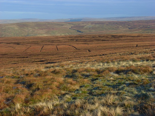 Ousby Fell This is the view across the grid-square from the sheepfold at its southeastern extremity. Below you can see some parallel drainage ditches. These are the sort of feature that you can see clearly from a distance, but that you stumble into when actually there. The fell takes its name from the village, quite a distance away, to the west of the high Pennine watershed. The parishes here stretch for miles either side of the watershed. The view takes in the valley of Black Burn/Cash Burn first and then that of the River South Tyne.